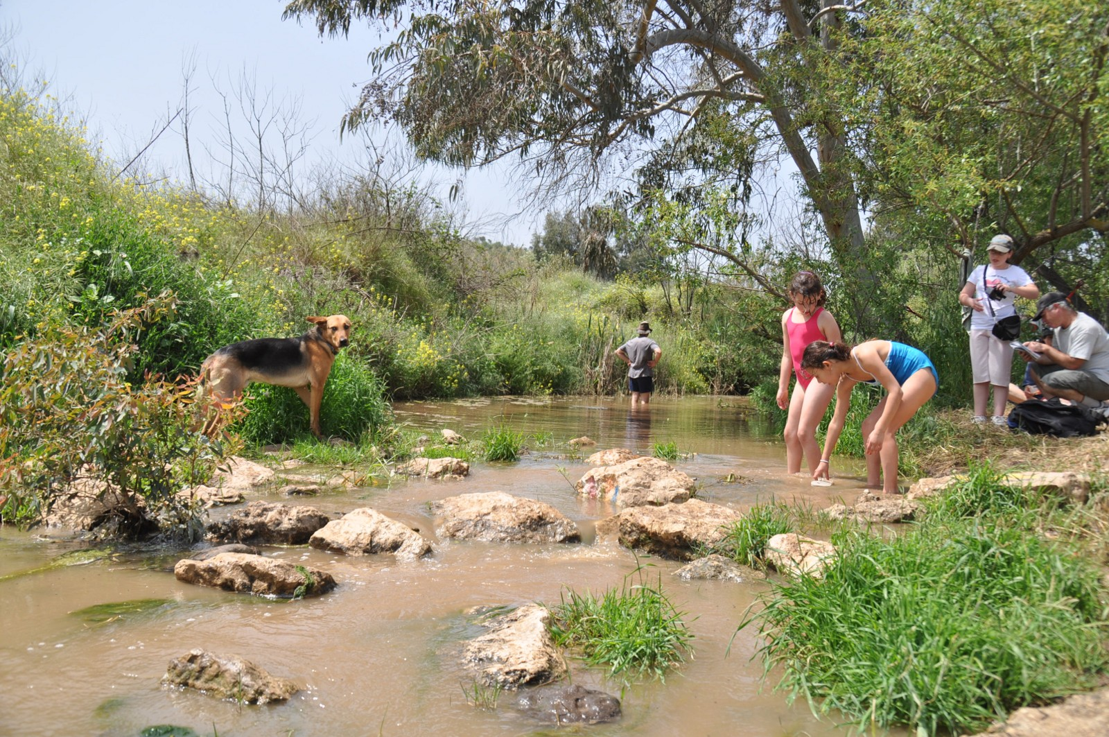 Geography of Israel